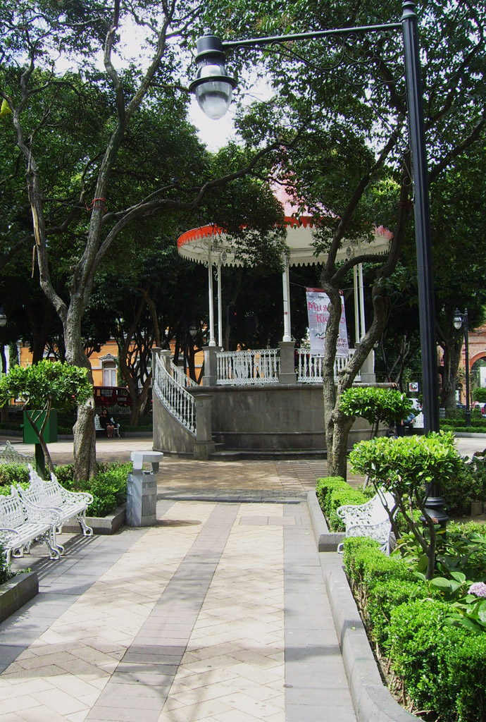 Bandstand at Tlalpan's County Park, at Mexico City